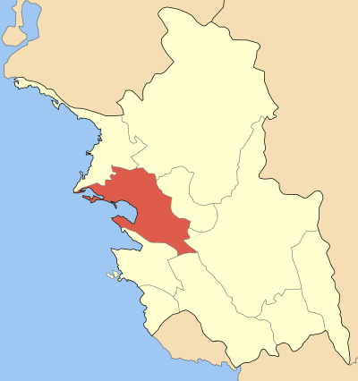 Locator map of Igoumenitsa municipality (Δήμος Ηγουμενίτσας) in Thesprotia prefecture (Νομός Θεσπρωτίας) in Greece.